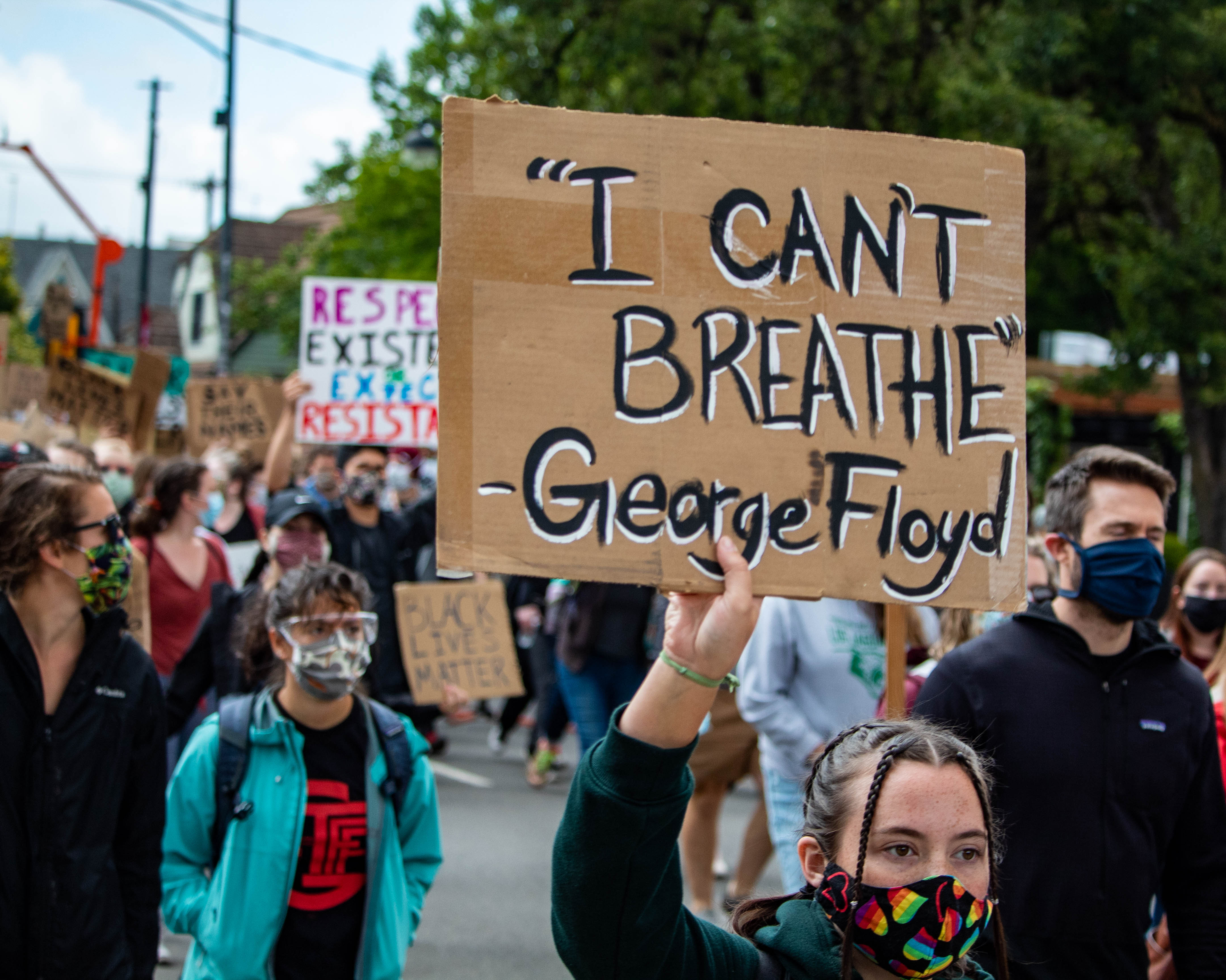 A large group gathered at the Wayne Morse Free Speech Plaza. After a few speeches the group marched through Eugene's downtown to gather on the campus of the University of Oregon campus. The local members of Black Lives Matter lead a teach in from the steps of Deady Hall, an historic campus building named after an historic racist.